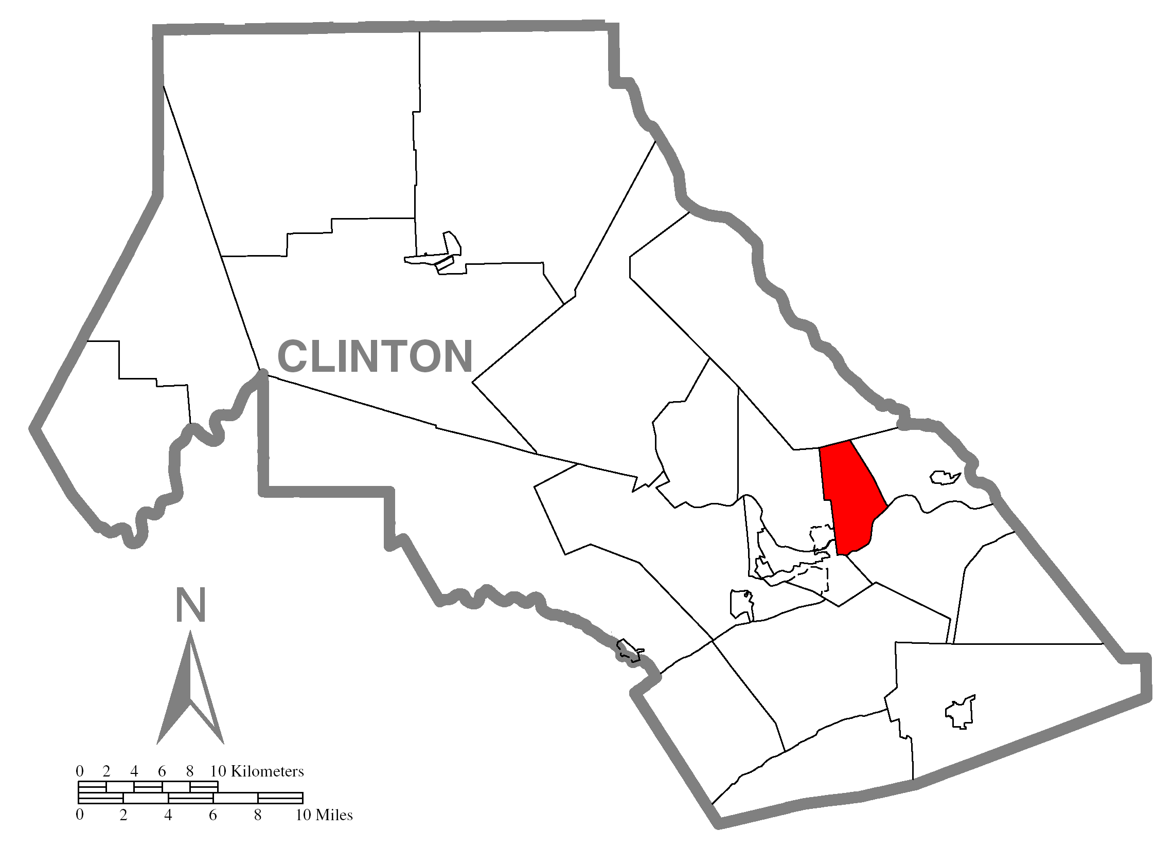 A map of Clinton County showing Dunnstable Township, Pennsylvania (alternate) highlighted on the map.